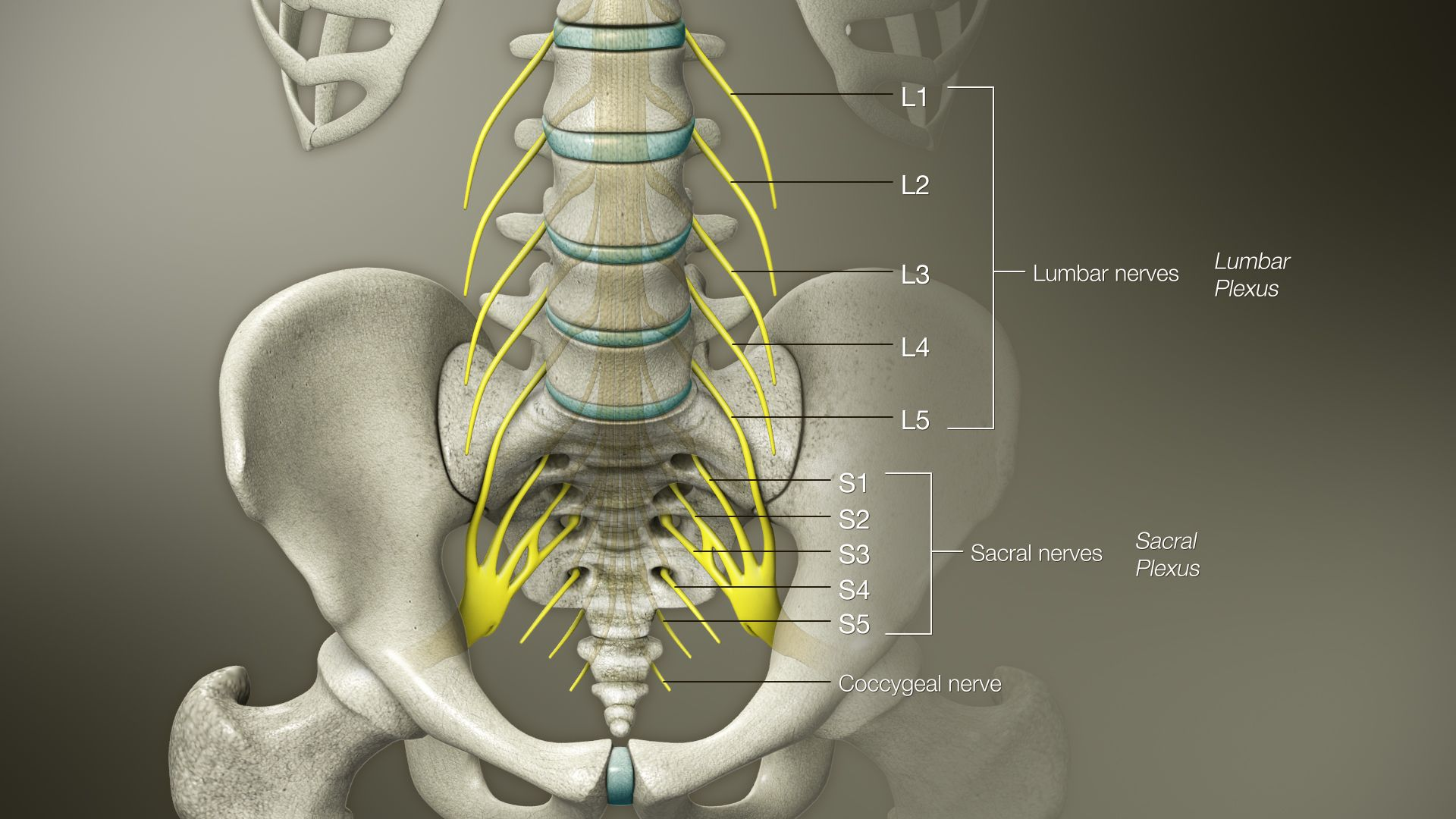 3D Medical Animation still shot of Lumbosacral Plaxus of human nervous system